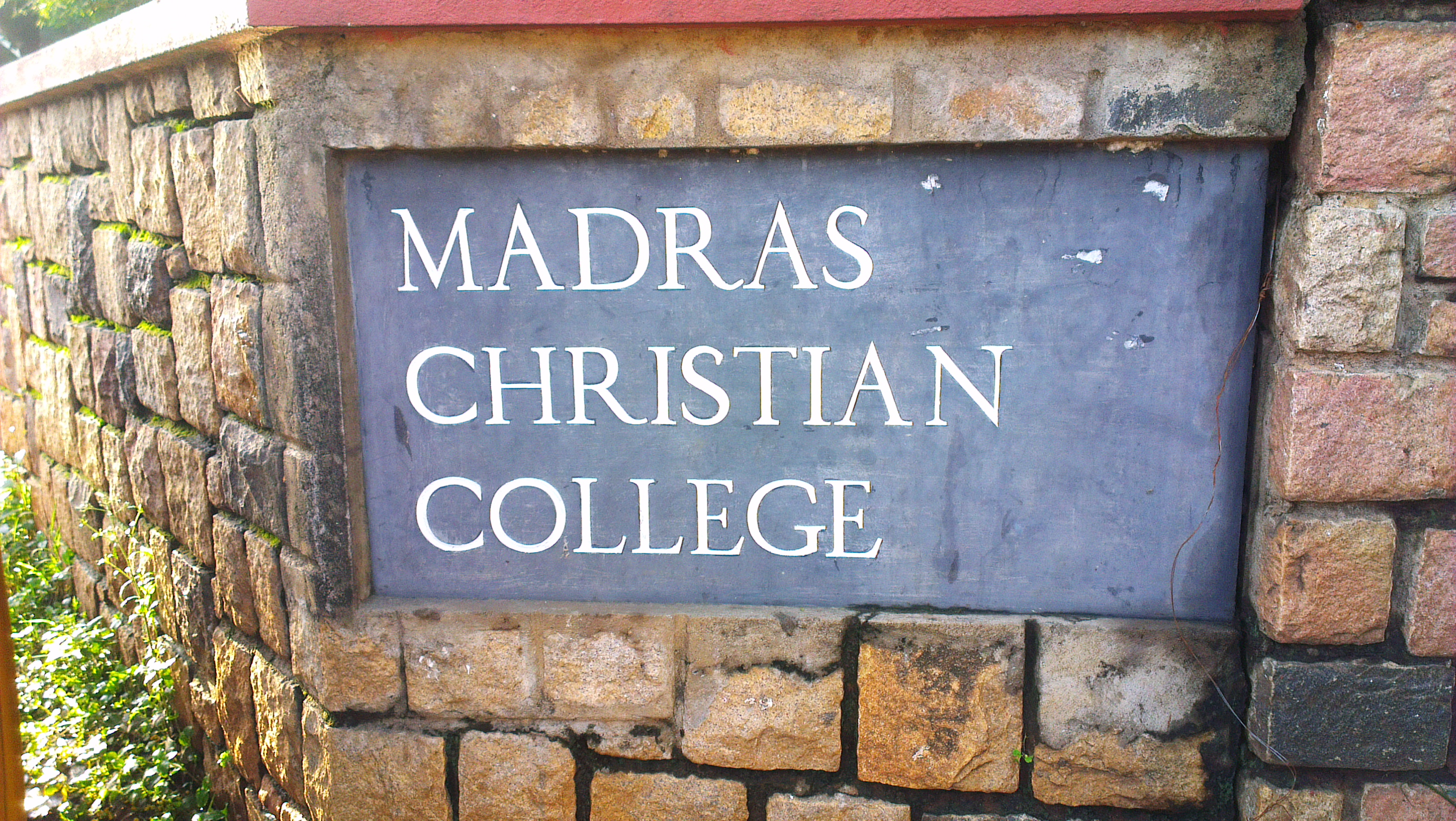 madras Christian college Chennai - gate1